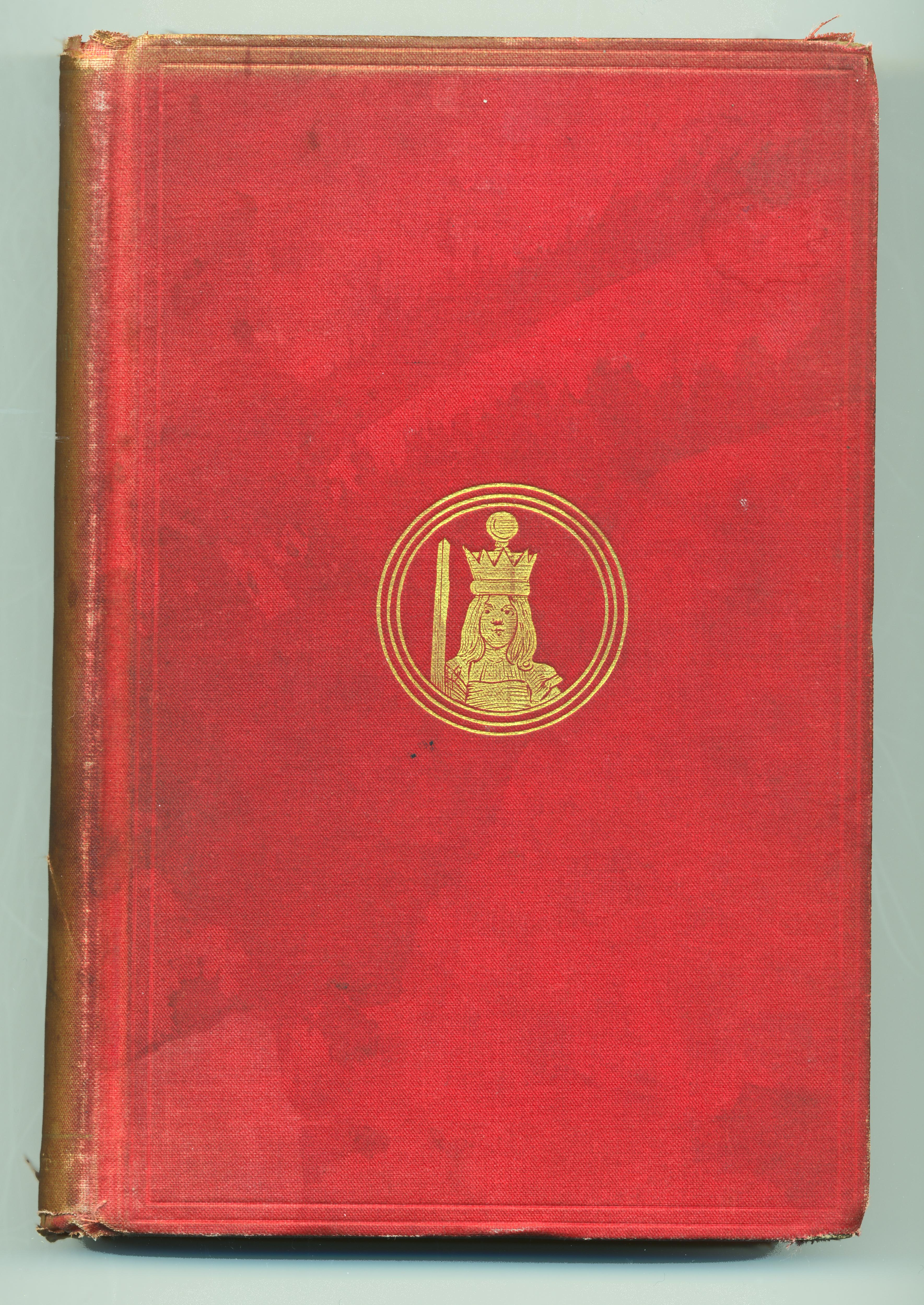 Scan of the front cover of A New Alice in the Old Wonderland, published by Lippincott in 1895.